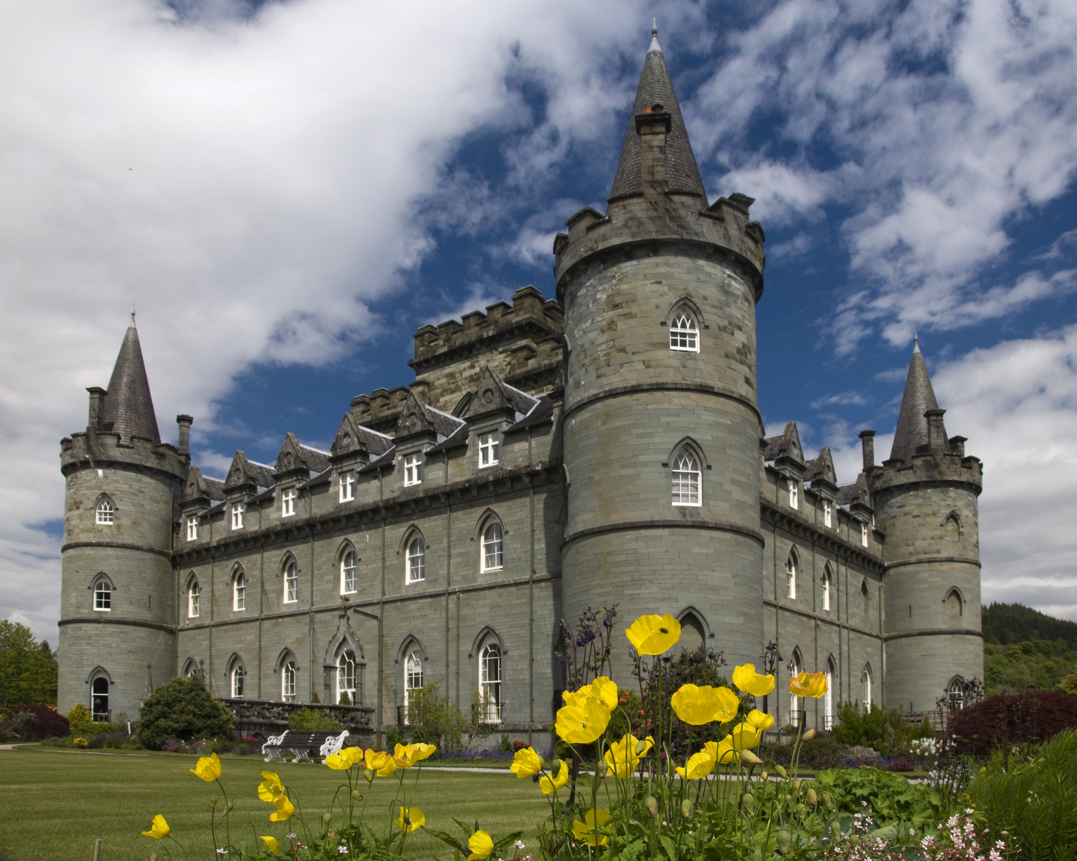 Grade A listed castle in Scotland. Picture taken in May 2013